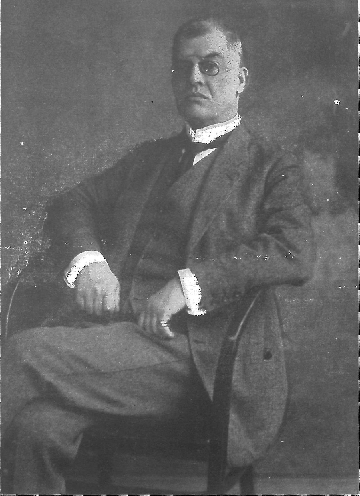 Croatian ban (viceroy) Antun Mihalovich